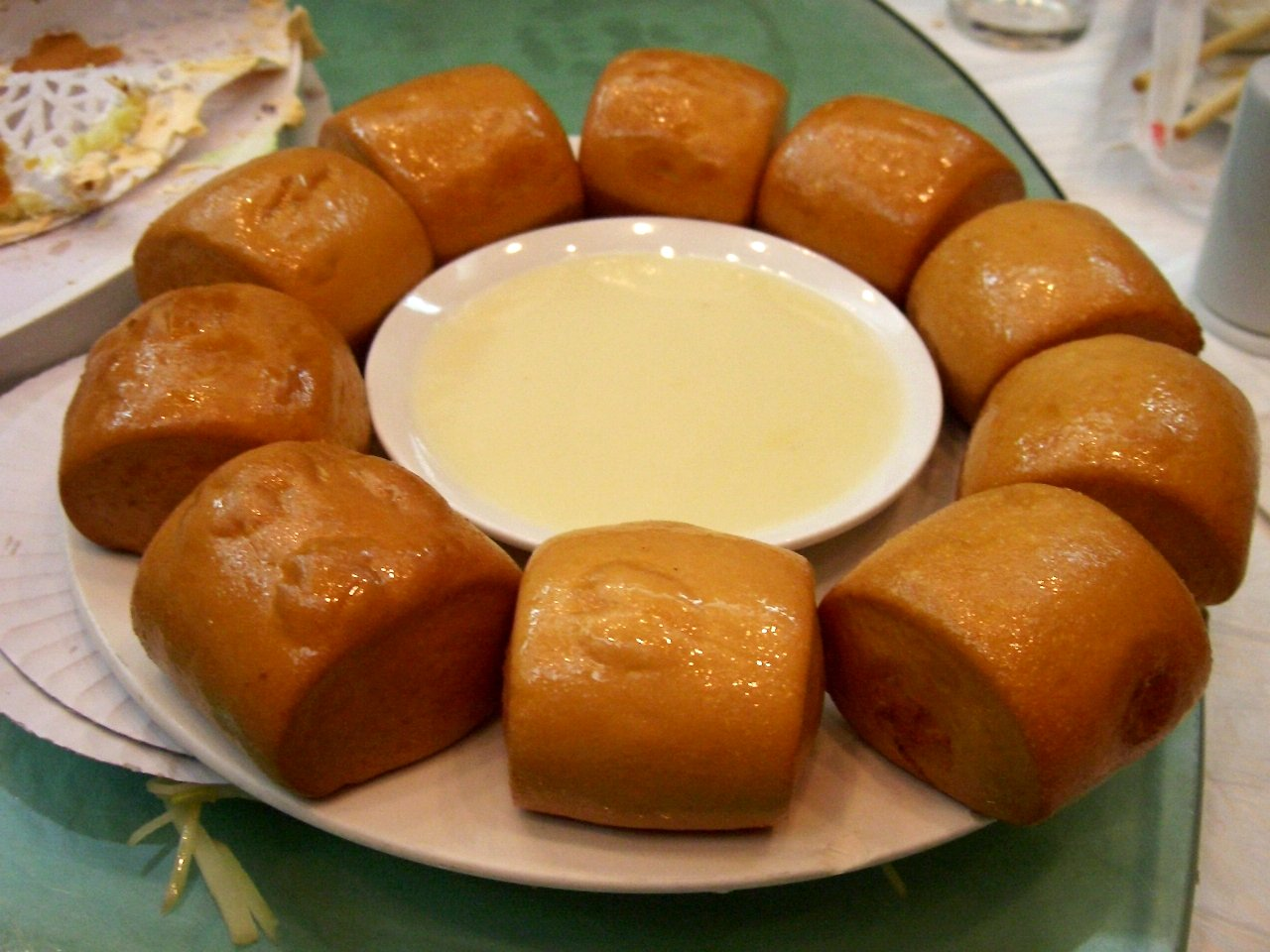 zha mantou, deep-fried mantou. Served with sweetened condensed milk in the centre. A popular dessert in Beijing, if not elsewhere in China. Delicious!